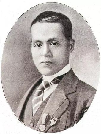 Chan Lim-pak (1884-1945)